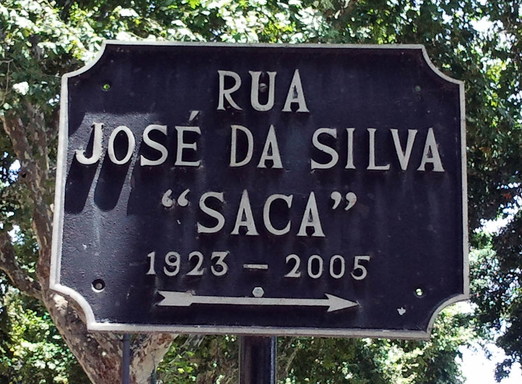 José da Silva "Saca" street (Santa Maria Maior, Funchal). Named after the Madeiran swimmer José da Silva "Saca".